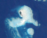 This image (Landsat 7) shows Leleuvia island, Fidji, surrounded by a big coral reef